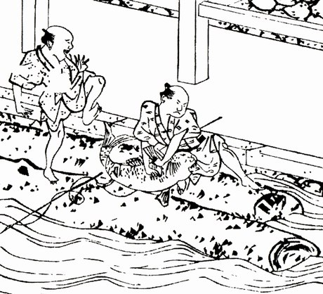 Igyo (異魚) from Ehon-Sayo-Shigure (絵本小夜時雨)